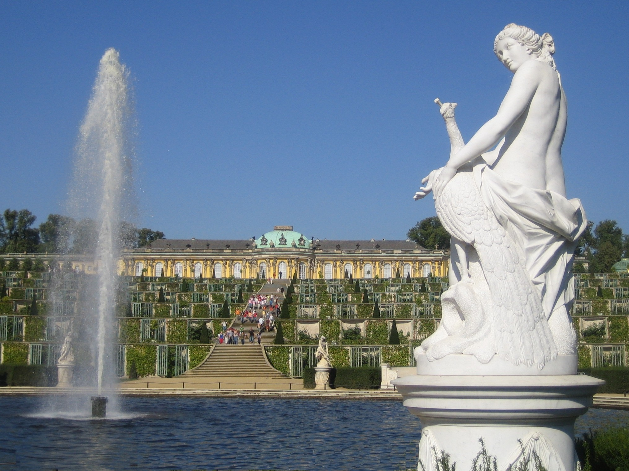 Palace of Sanssouci with fountain and sculpture Juno by François Gaspard Adam in the foreground.